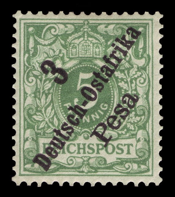 stamp series for German Colonies Ausgabepreis: 3 Pesa First Day of Issue / Erstausgabetag: April 1896 Michel-Katalog-Nr: 7 (Deutsche Kolonie Ostafrika)